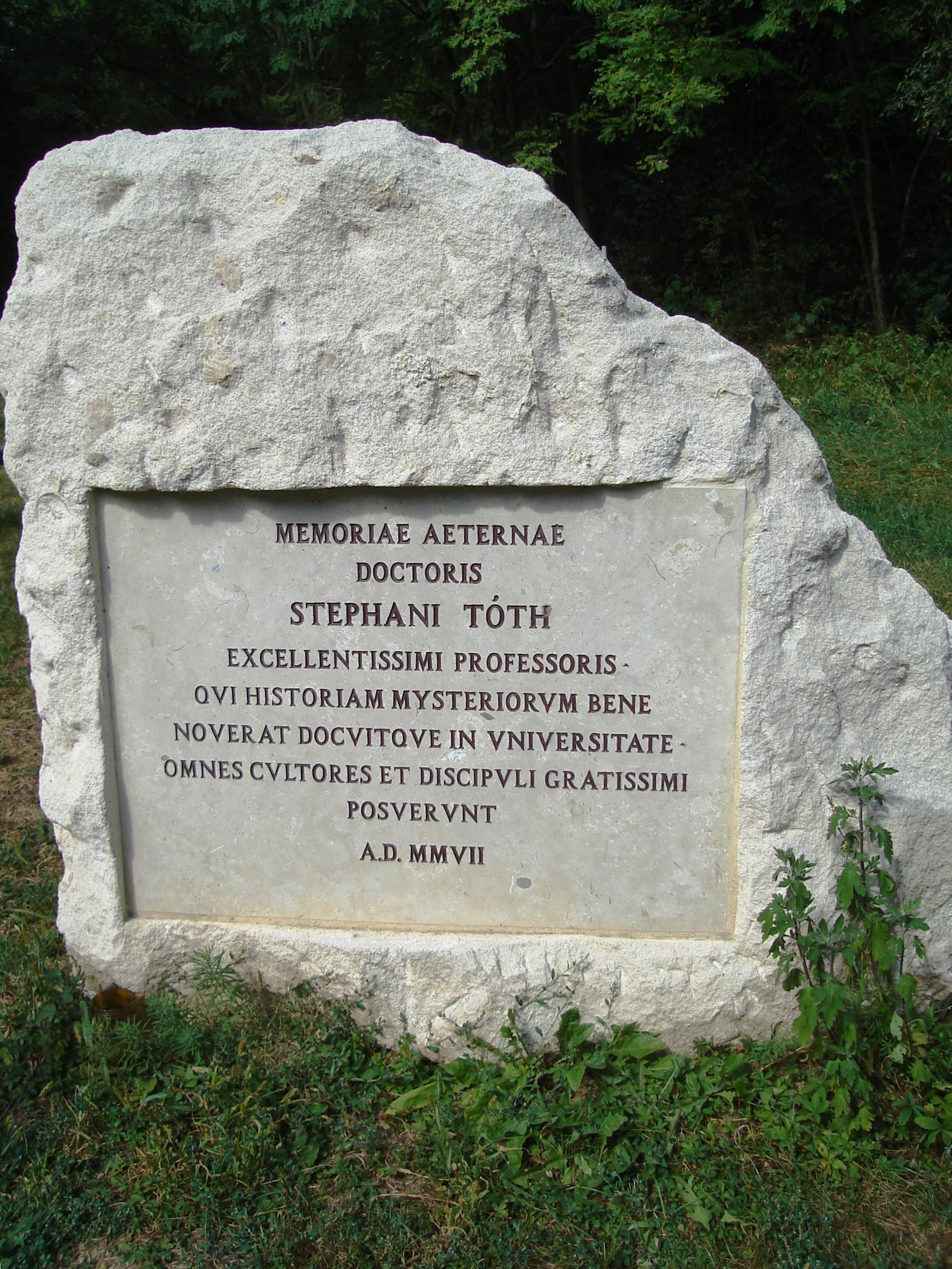 Commemorative plaque of Dr. habil. István Tóth DSc (1944–2006), Hungarian archaeologist; next to the Mitraeum at Fertőrákos